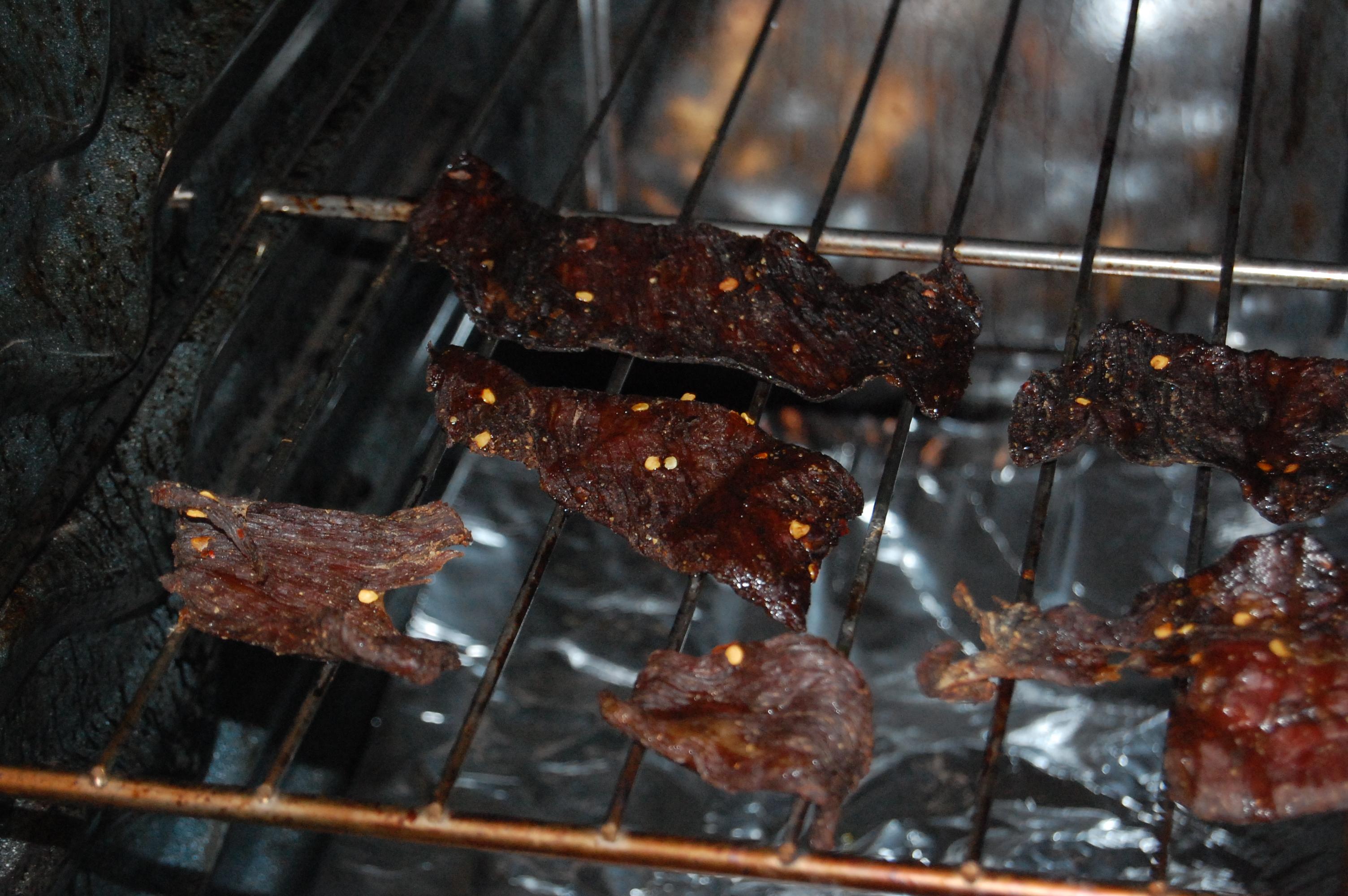 Beef jerky being dried, about three-quarters of the way done